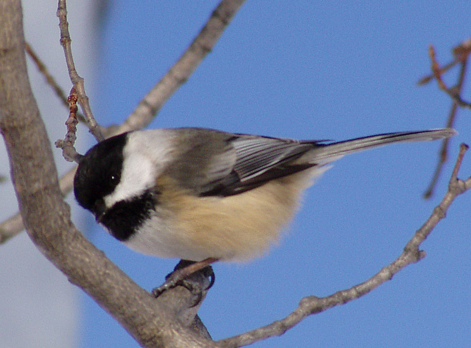 Description: Black-capped Chickadee (Parus atricapillus or Poecile atricapillus) Location: Greater Madawaska Township, Ontario, Canada Date: 2005-12-19 Source: picture taken by Danielle Langlois Licence: Released under GFDL and Creative Commons licenses by the photographer